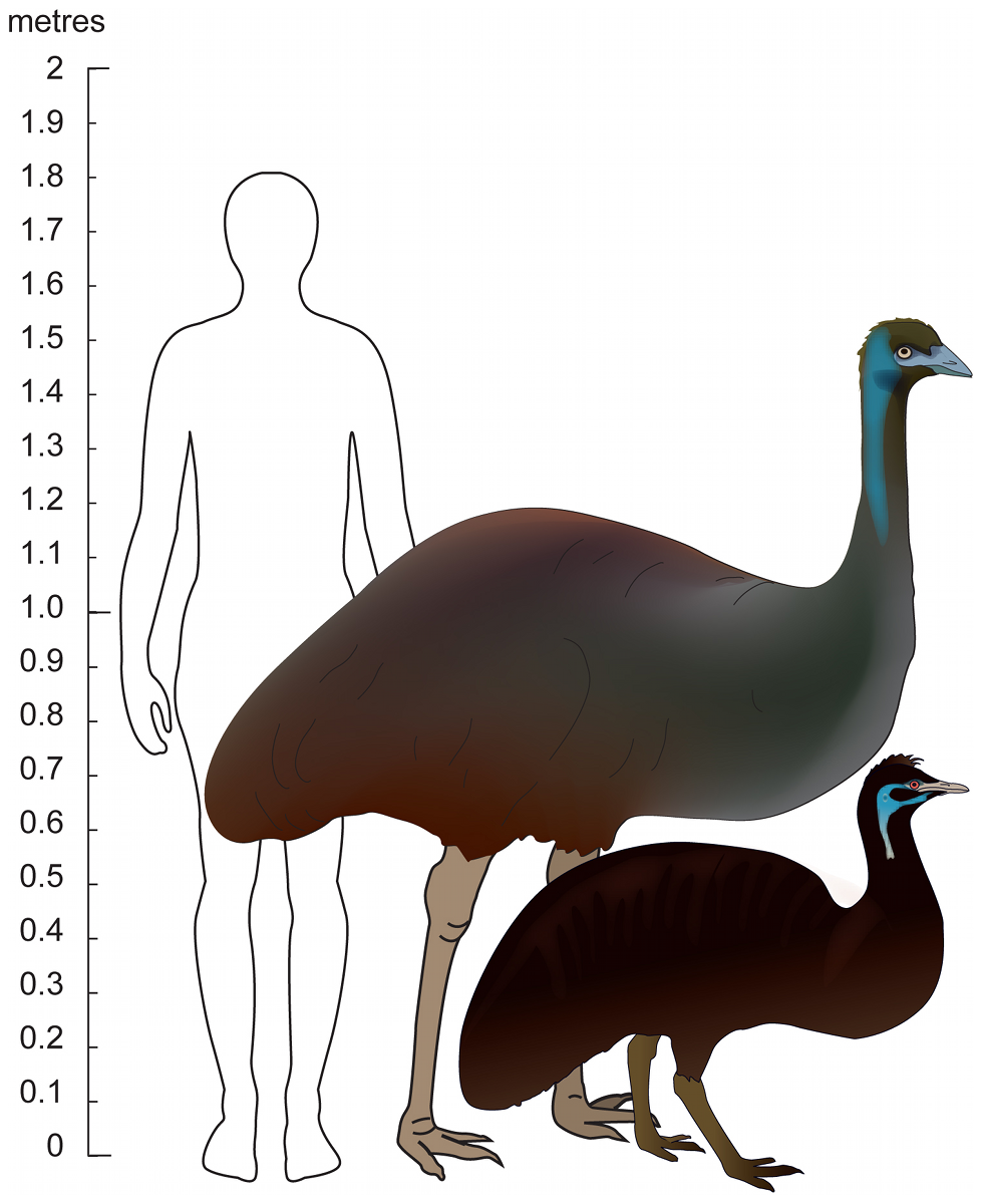 Modern and extinct emu. The modern Emu (centre) and King Island Emu (right) with human outline shown approximately to scale. Apart from obvious size differences, there were reports of colour differences between these emu taxa.